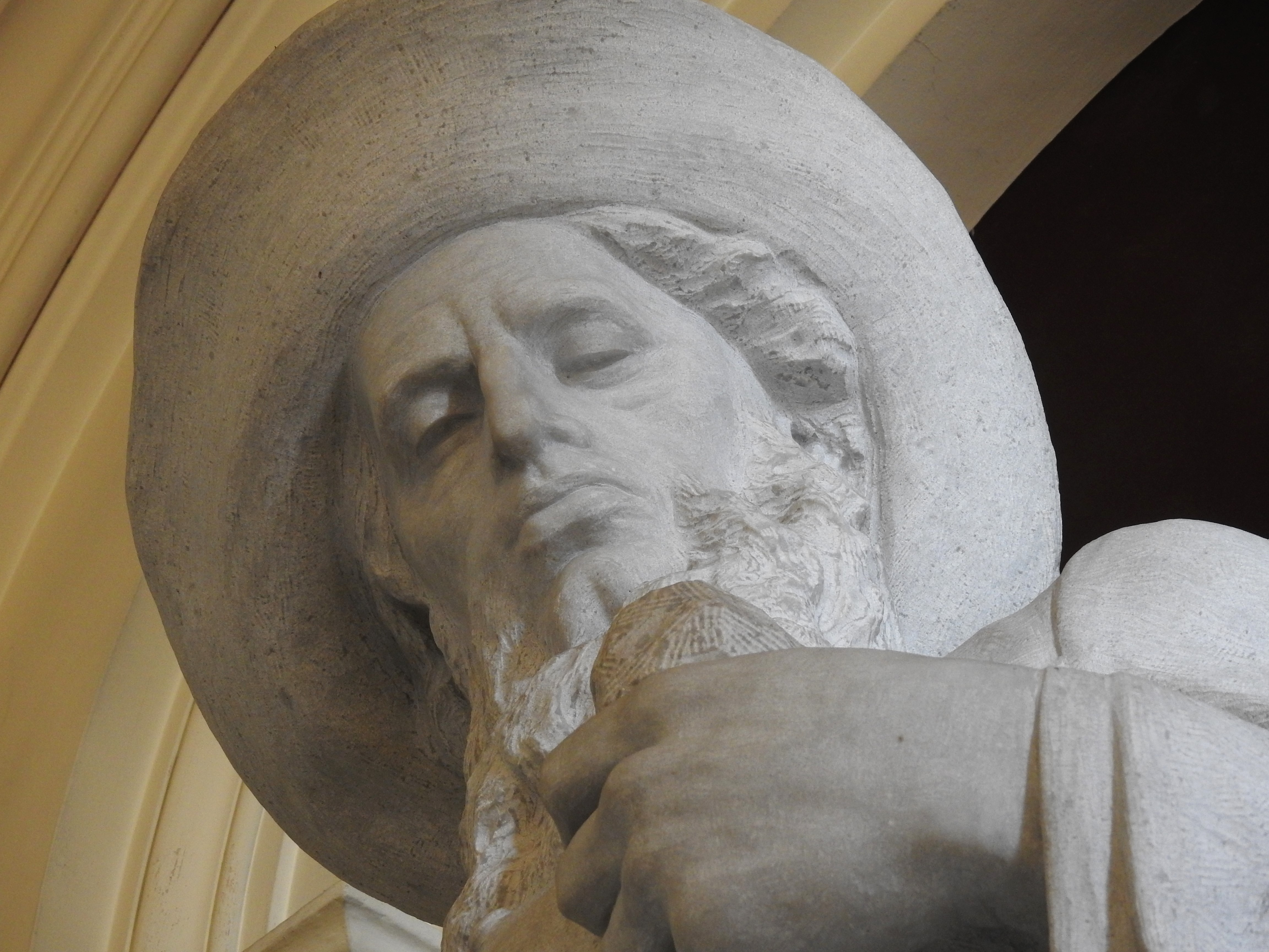 The Museu Paulista of the University of São Paulo (commonly known in São Paulo and all Brazil as Museu do Ipiranga) is a Brazilian history museum located near where Emperor Pedro I proclaimed the Brazilian independence on the banks of Ipiranga brook in the Southeast region of the city of São Paulo, then the "Caminho do Mar," or road to the seashore. It contains a huge collection of furniture, documents and historically relevant artwork, especially relating to the Brazilian Empire era.